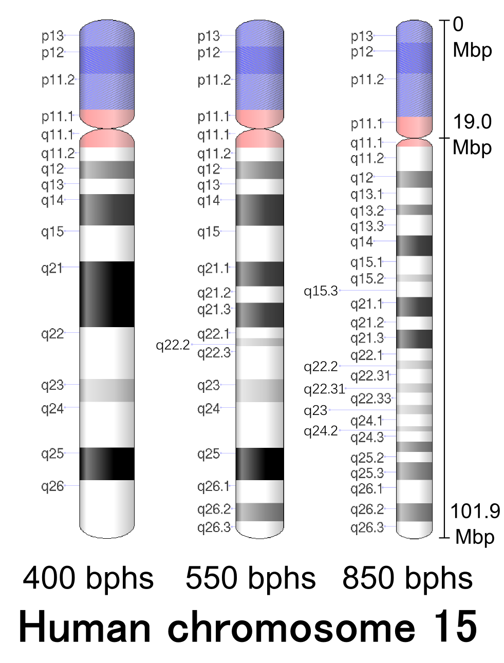 Ideograms of G-band pattern of human chromosome 15 in three different resolutions (400, 550 and 850 bphs, bands per haploid set). Different resolutions are corresponding to different band patterns observed through mitotic phase (about relation between banding resolution and mitotic phase, see, for example, Fig.3 in W Sethakulvichaia (2012)). Legend: Black and gray is Giemsa positive. Red is centromere. Light blue is variable region. Dark blue is stalk. At the right, centromere position (center) and q arm terminus position (bottom), counted from p arm terminus (top) in Mbp (mega base pairs), are labeled. Physical length (sometimes referred as "absolute length") is not labeled. Because physical length of chromosomes vary while mitosis. (typical human chromosome physical length is in the order of from several micrometers to ten and several micrometers. See, for example, Category:Human chromosome images with scale bars.).